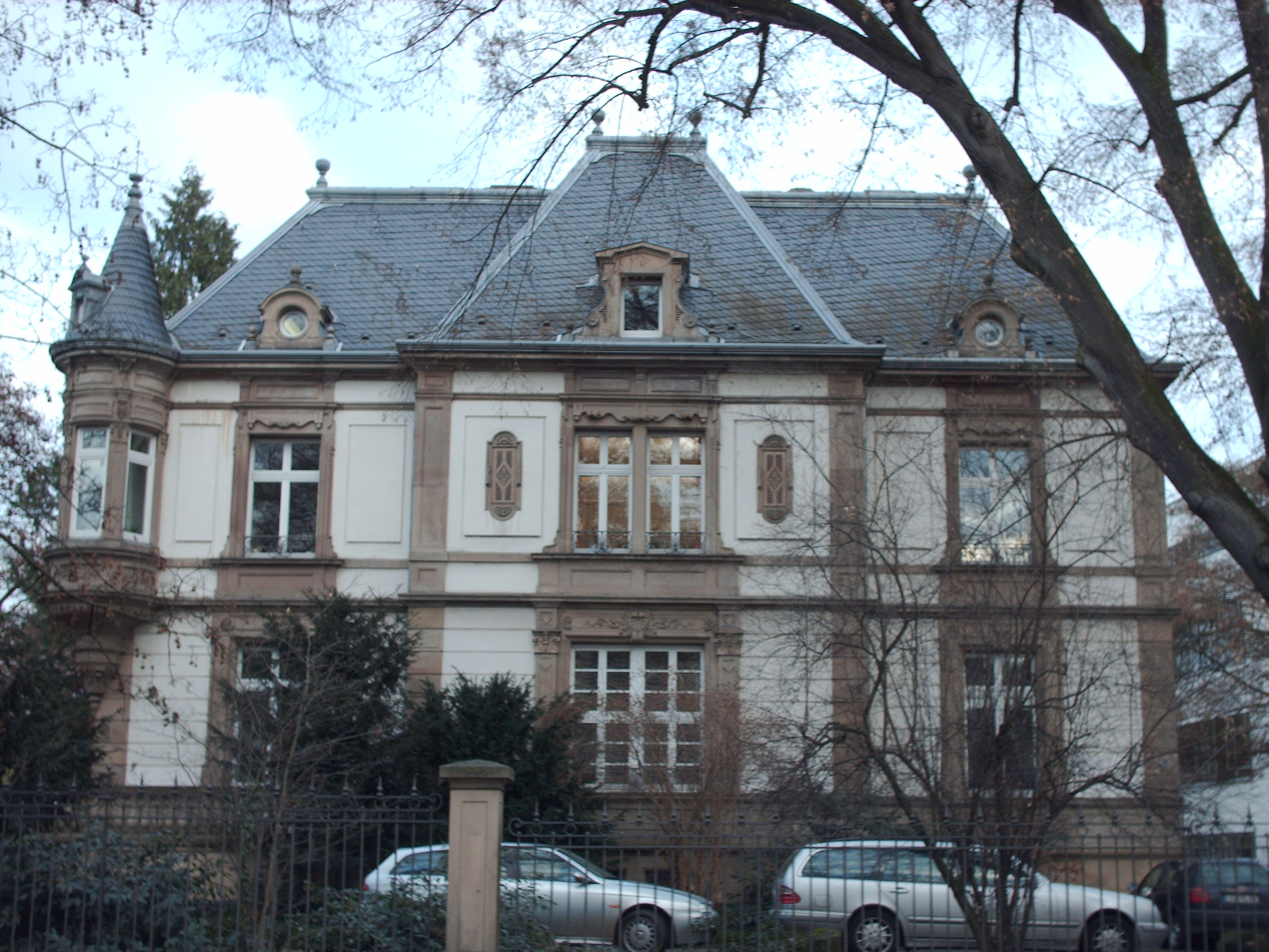 Villa Leutert, Gießen, Germany check usage